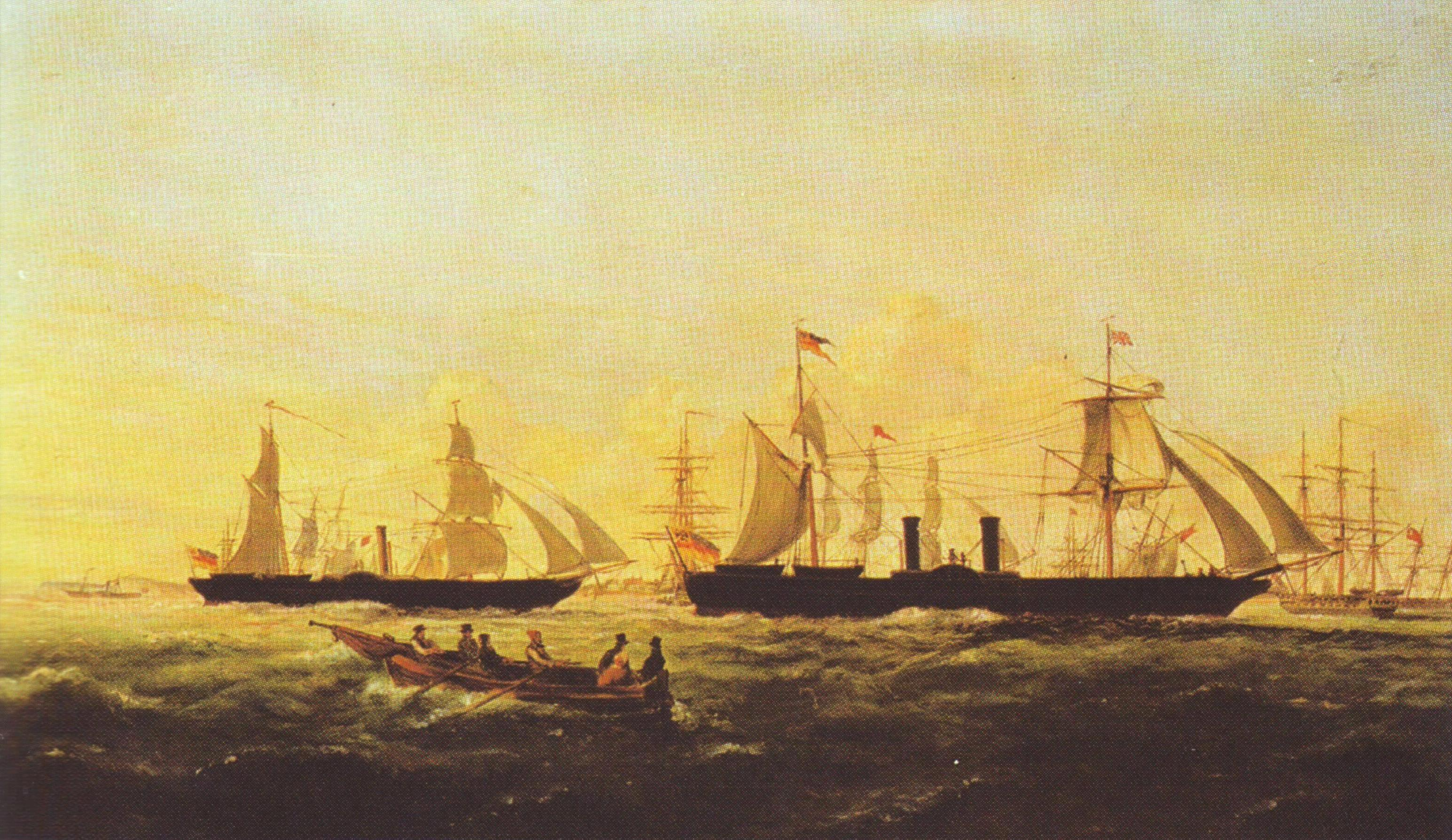 Ships of the nascent German "Reichsflotte" engaging with Danish ships near Heligoland, 4 June 1849.